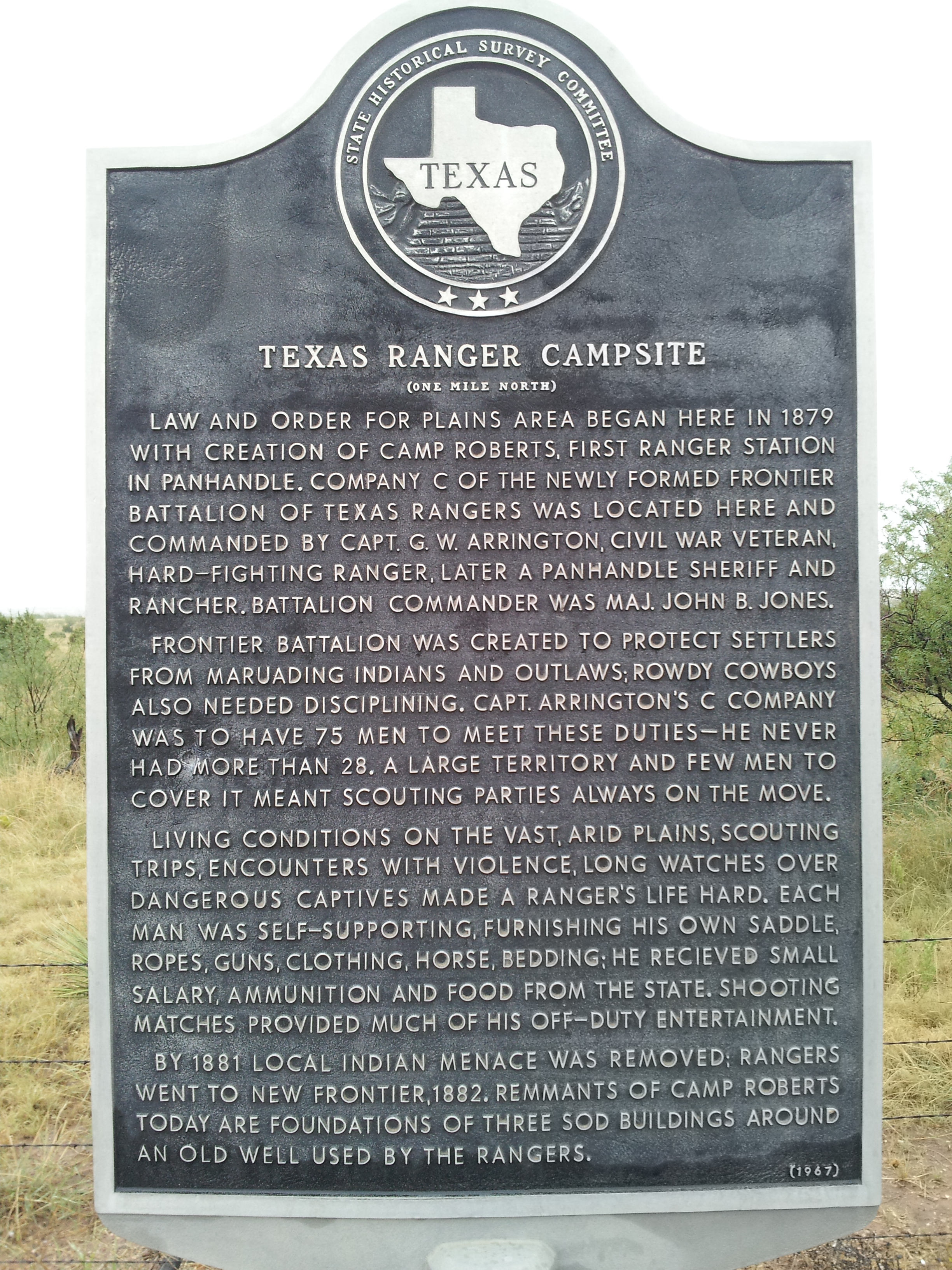 Texas Historical Marker for the Camp Roberts in Blanco Canyon